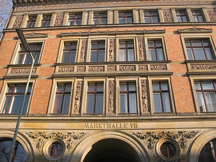 Market house VII, Berlin-Kreuzberg, opening 1888, built according to plans by Hermann Blankenstein, rest part at Dresdener Straße, today a residential house.